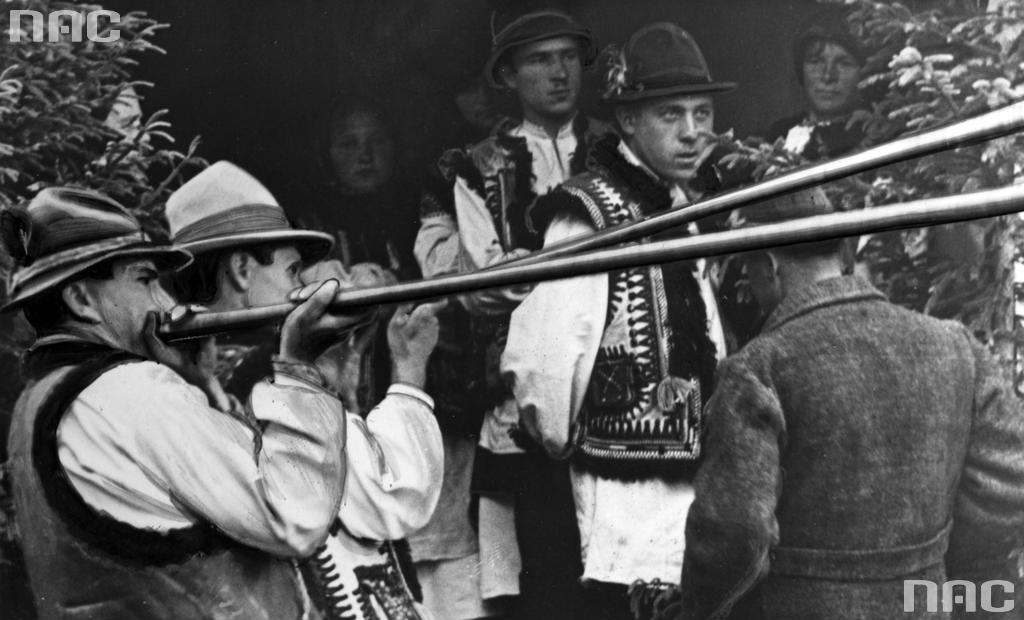 Ukrainian Hutsuls in traditional dress. Old prewar photograph, Ca. 1920s. Hutsuls are western Ukrainian highlanders from the Carpathian mountains.